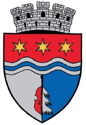 Coat of arms of the city of Reghin, Romania